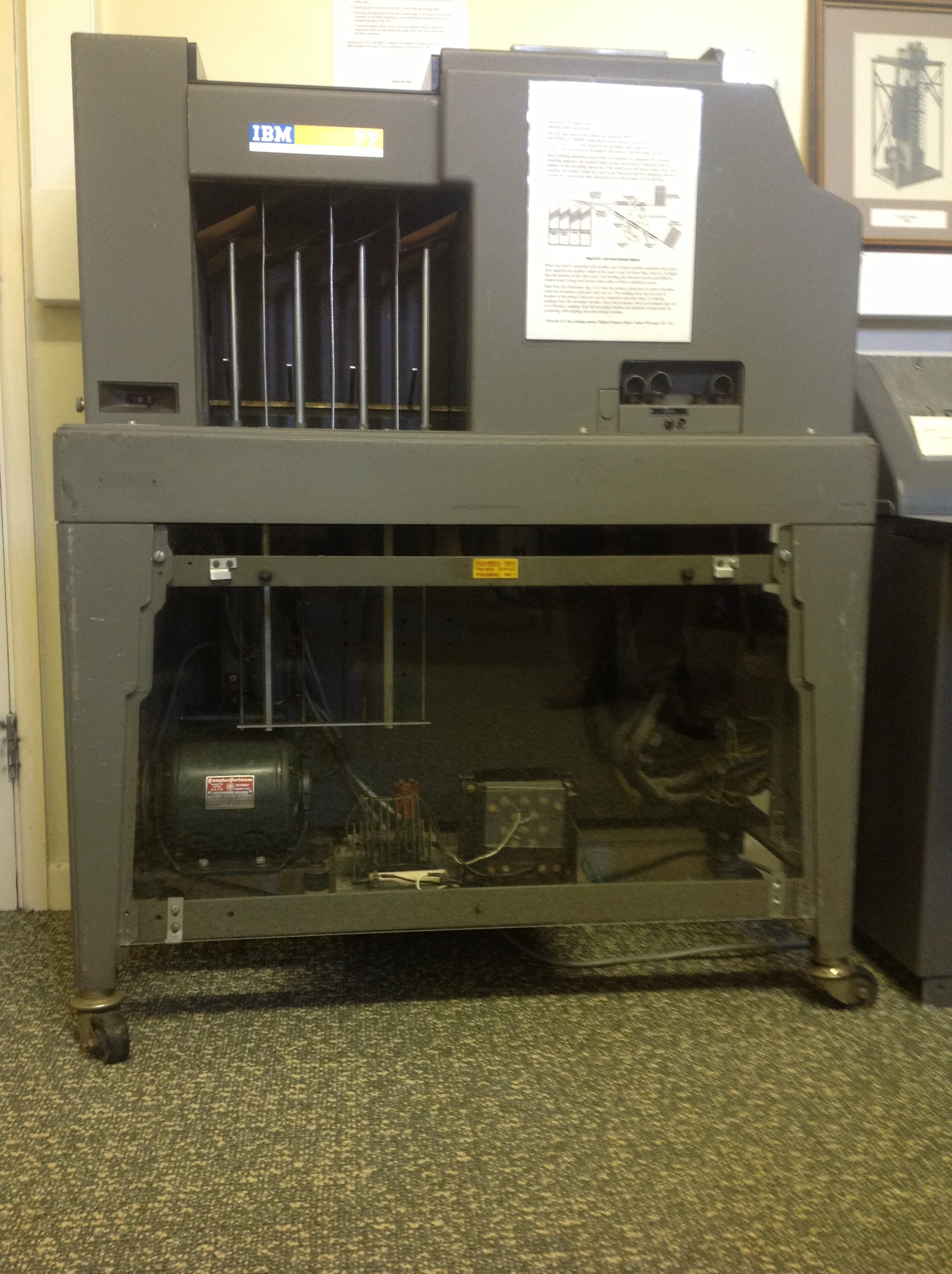 Collator IBM Type 77